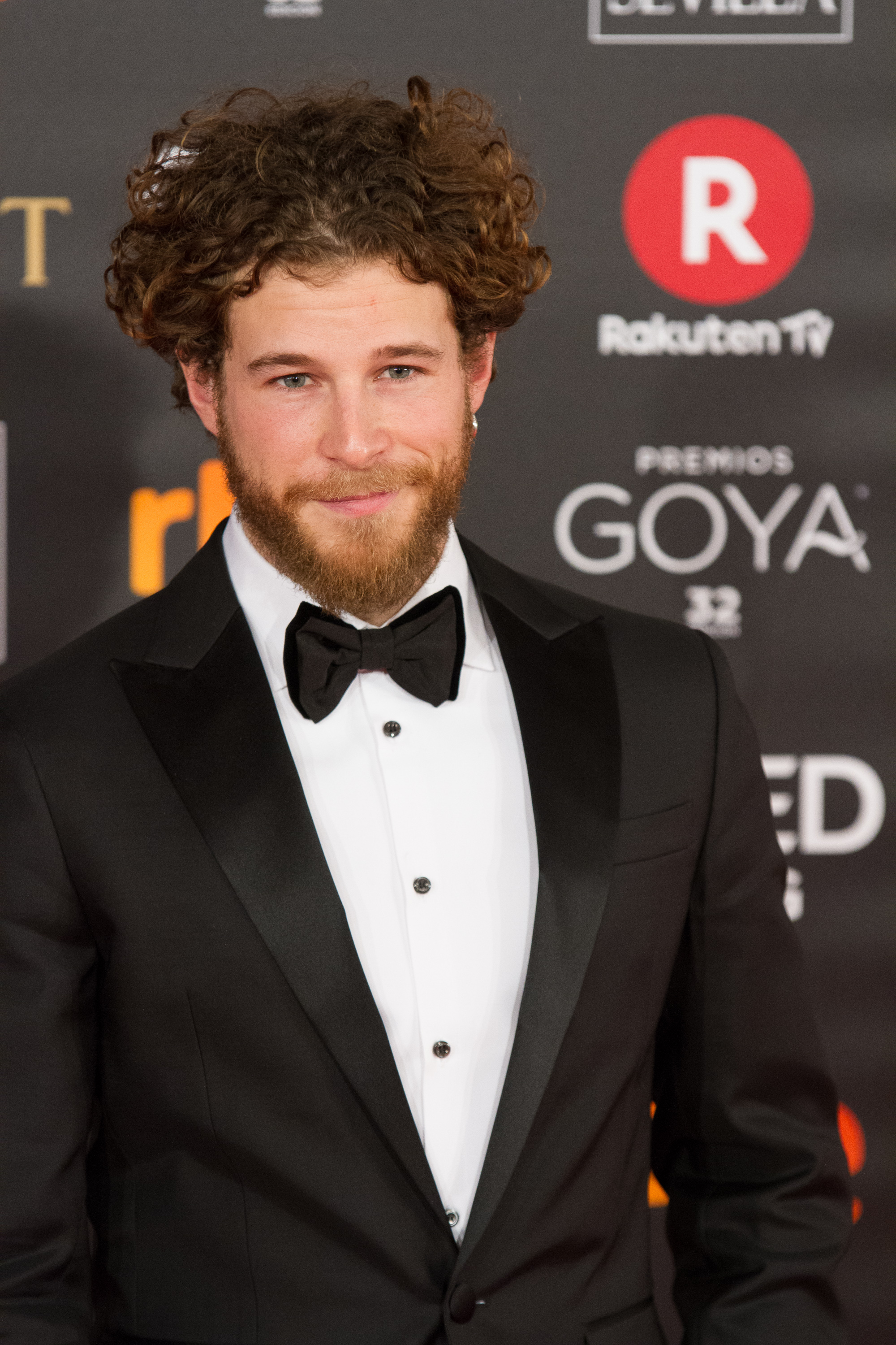 32nd Goya Awards, 2018.